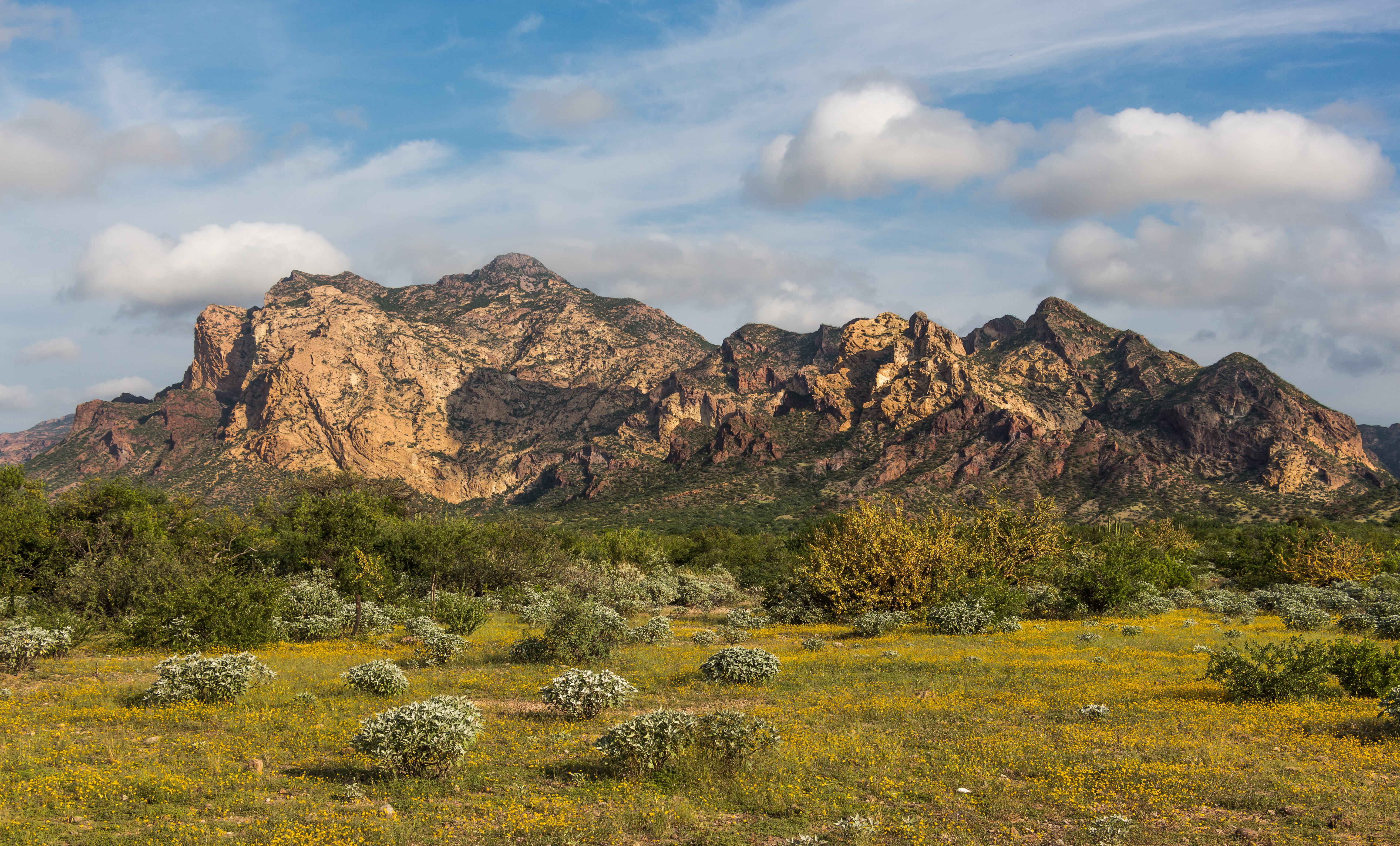 Sonoran desert in San Carlos, Sonora, Mexico during the blooming season.